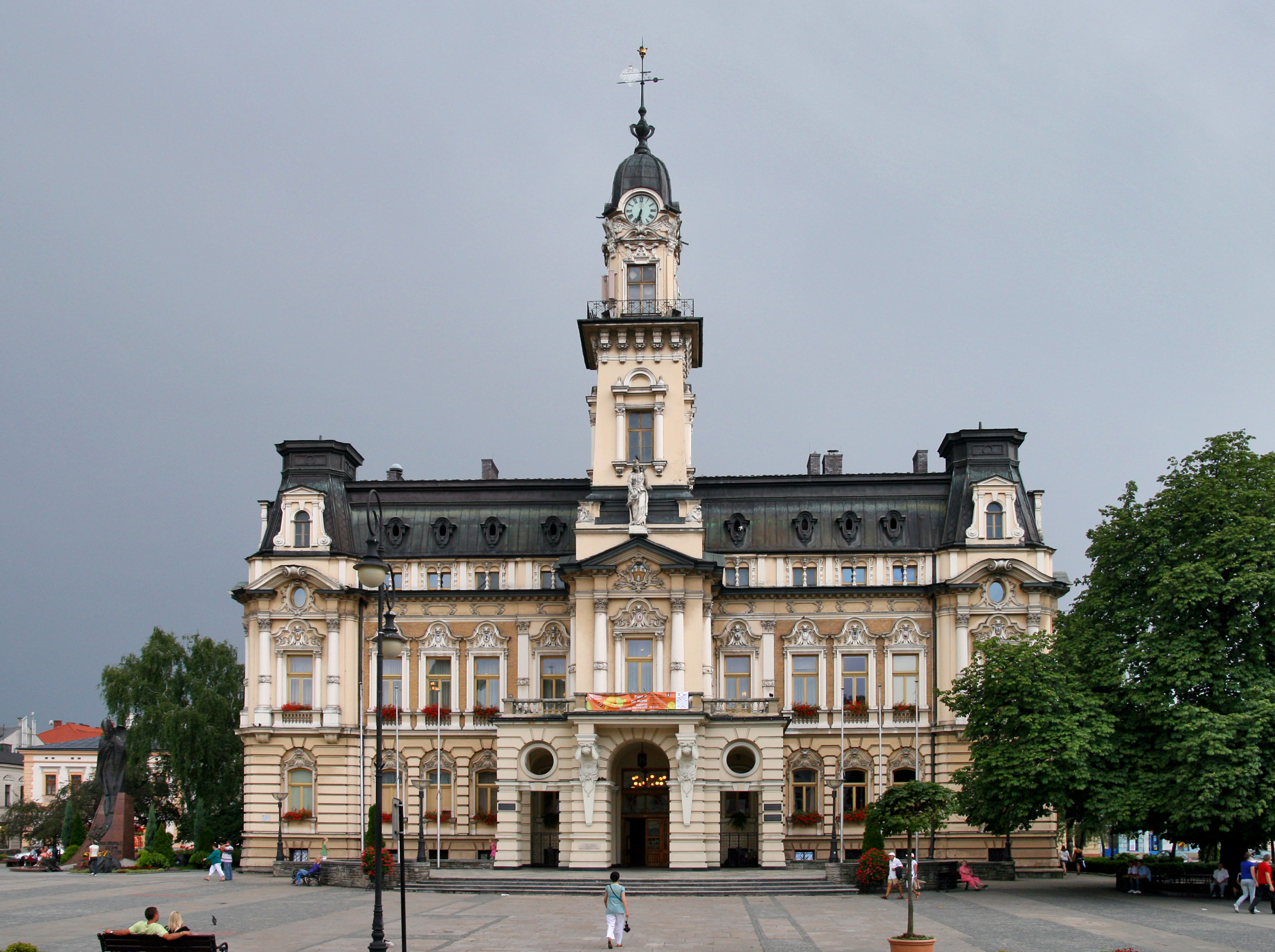 Market Hall in Nowy Sącz (Poland).